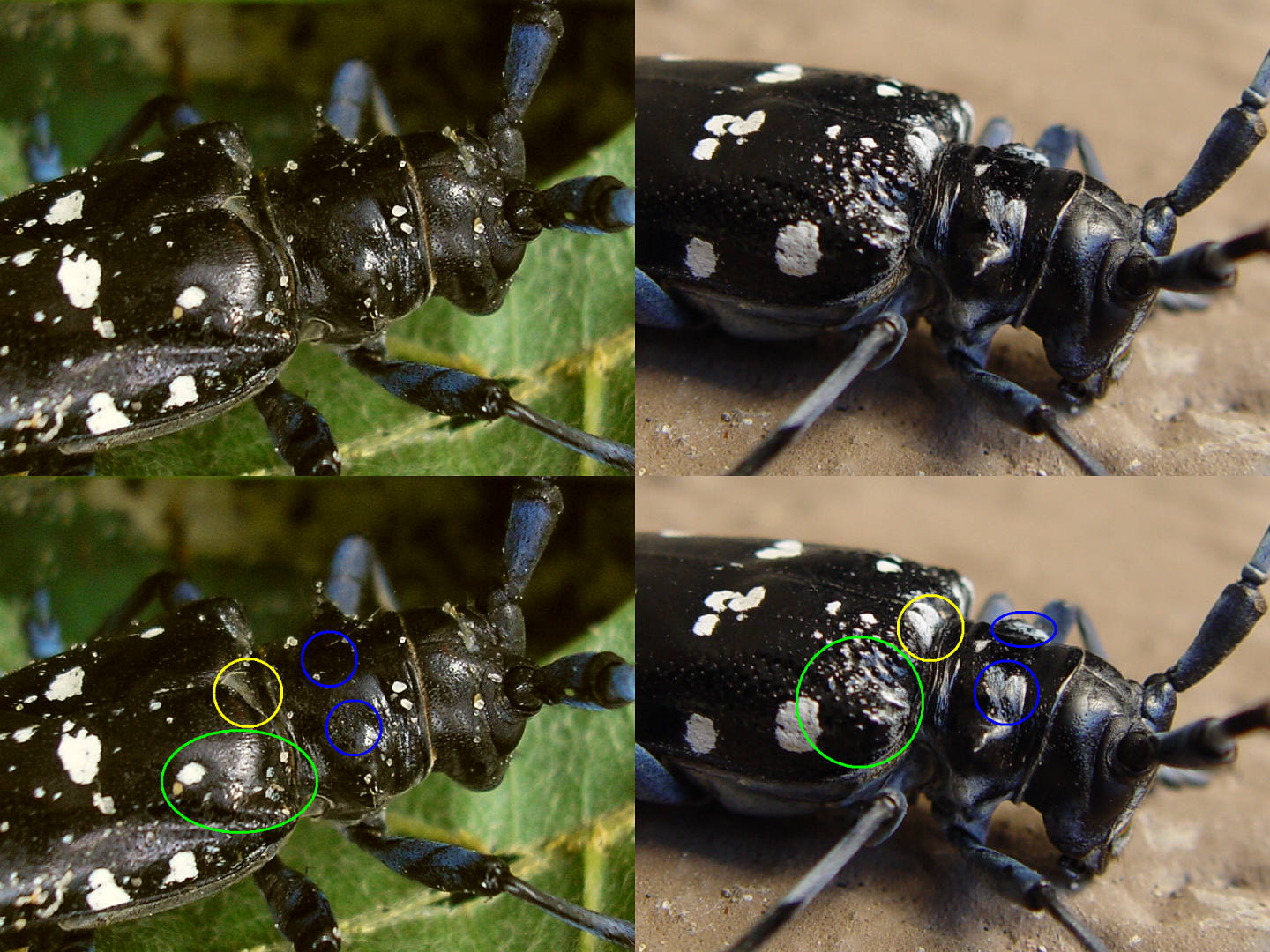 Anoplophora glabripennis and Anoplophora chinensis malasiaca side by side with some diagnostic characters indicated. BLUE: blueish-white hairy patches on pronotum only on A.c.malasiaca, not on A.c.chinensis and A.glabripennis (=sleek and black); YELLOW: Scutellum covered with blueish-white hair on A.c.malasiaca, not on A.c.chinensis and A.glabripennis (=black); GREEN: Base of elytra covered with tubercles on both A.chinensis ssp. but not on A.glabripennis (=sleek or locally rough at most, but not covered with tubercles).